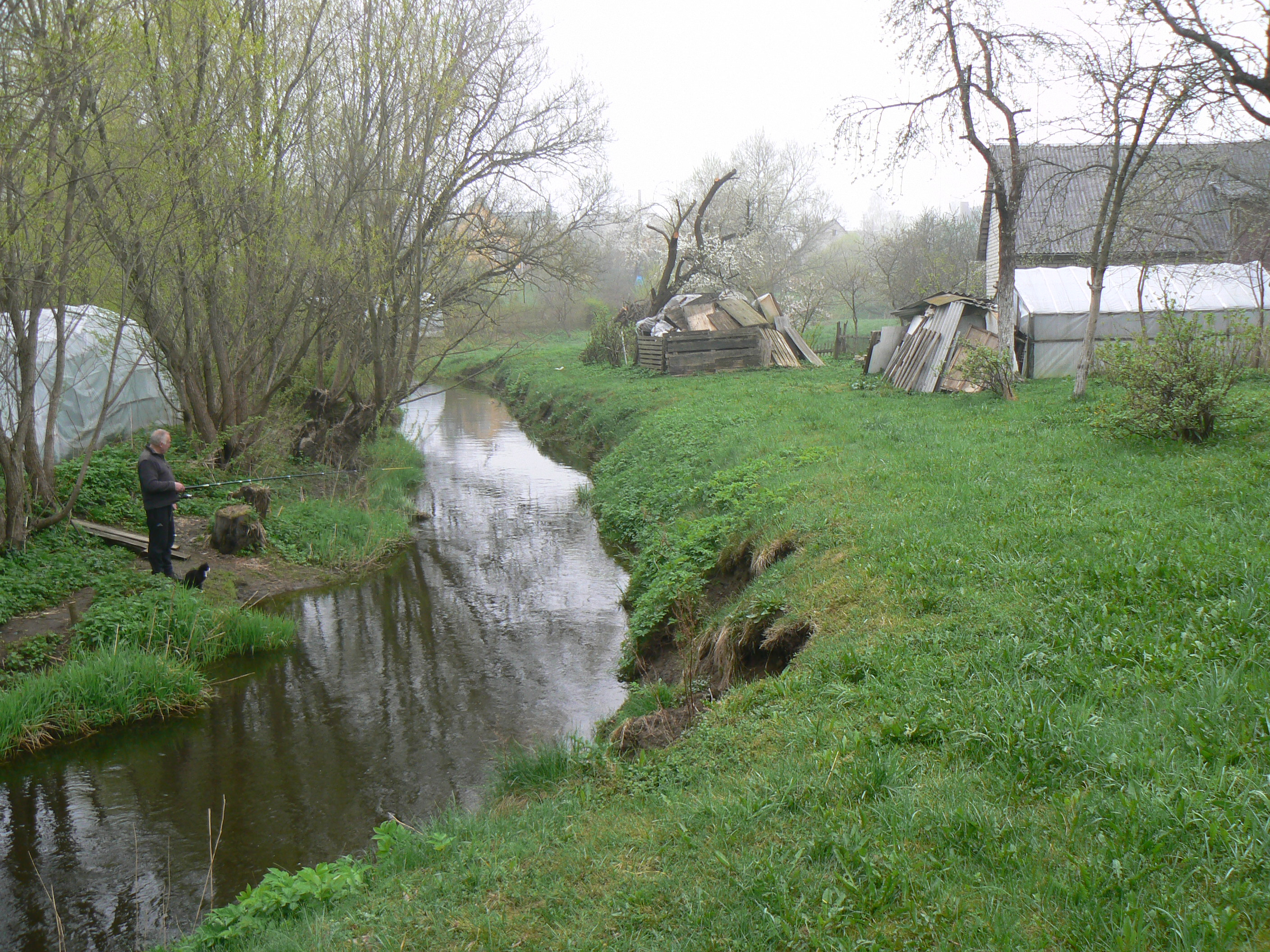 Ašutis in Šilalė Česky: Ašutis v Šilalė, pohled na západ po proudu